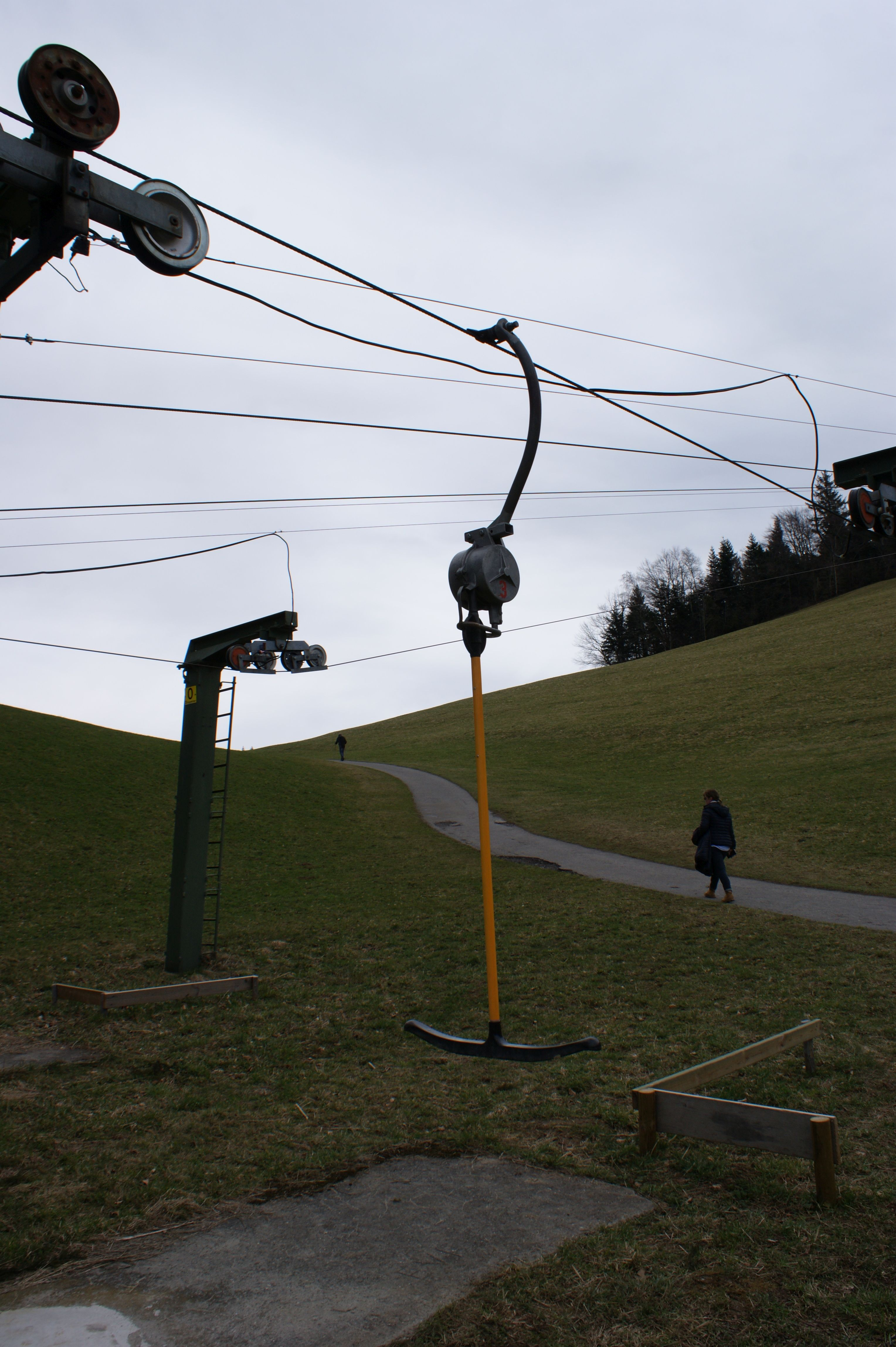 Dohle-lift in the Pfänder ski area on the Dohle-hillside in the municipality of Lochau, Vorarlberg, Austria. Surface lift spring box (hanger).